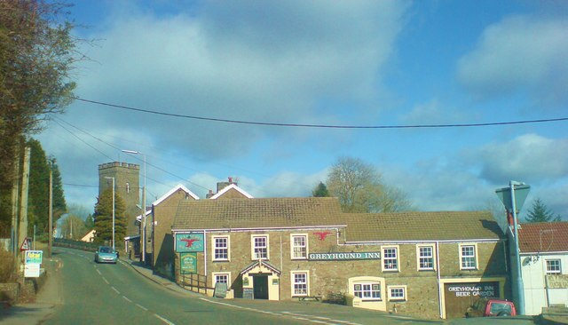 The Greyhound Inn, Llannon